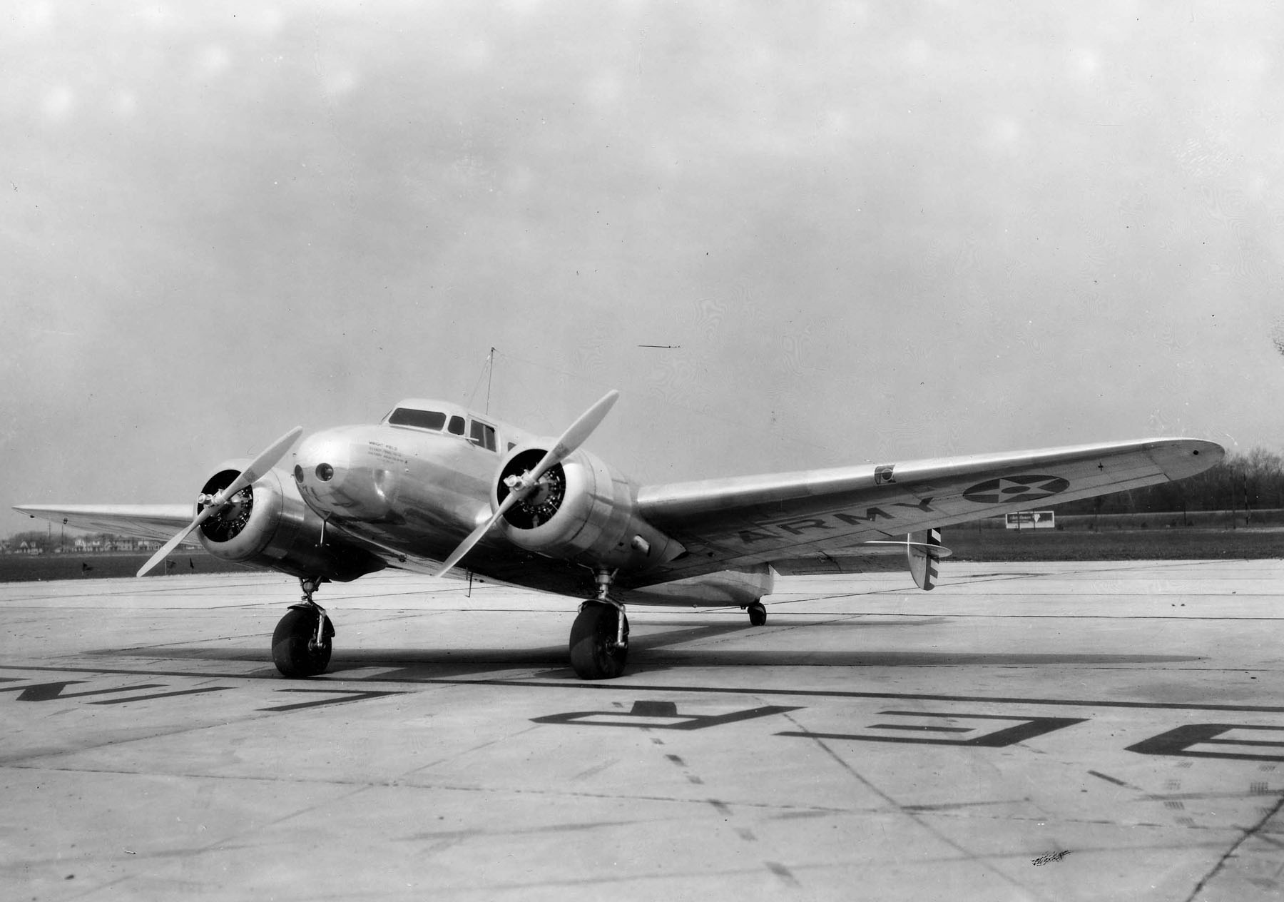 Lockheed Y1C-36. This type was later redesignated as C-36 and then again as UC-36. (U.S. Air Force photo)